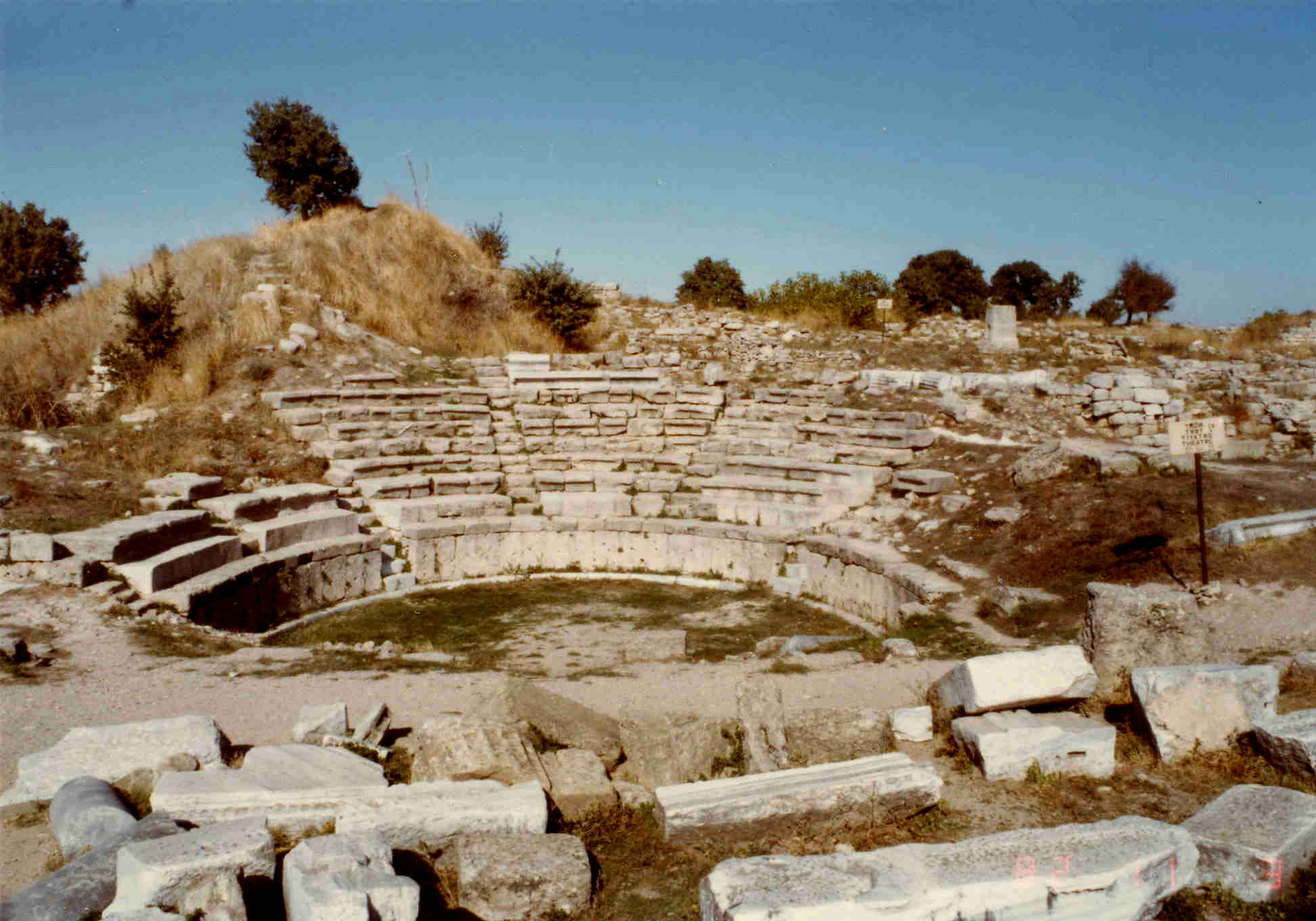 The southern-most of two outdoor amphitheatres where entertainments were once played out, and where debates were conducted amongst the Elders.